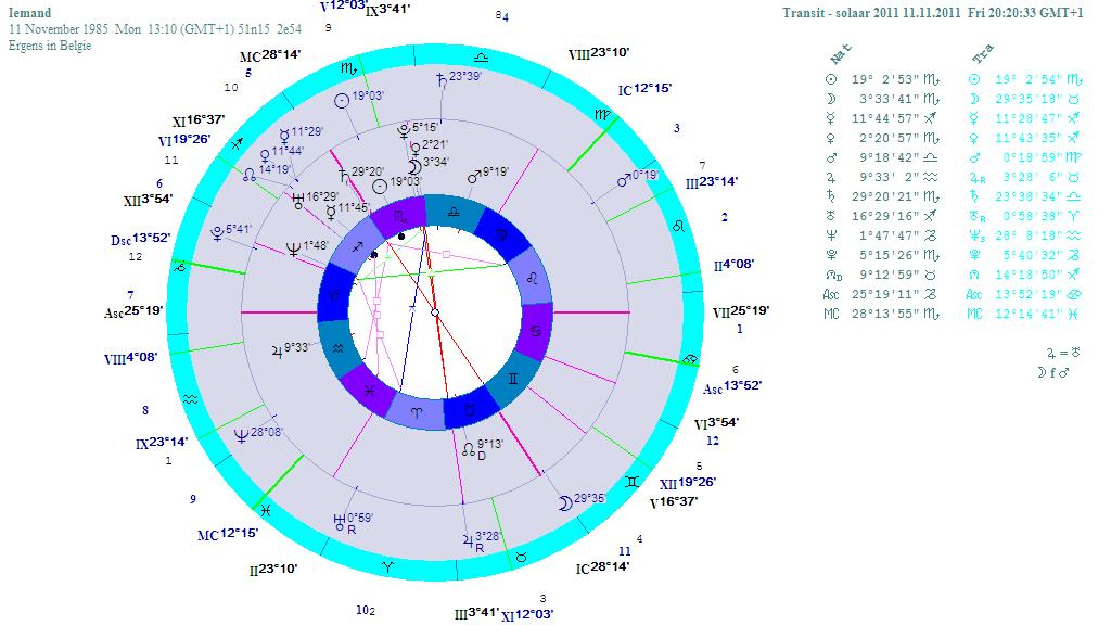 solar return horoscope